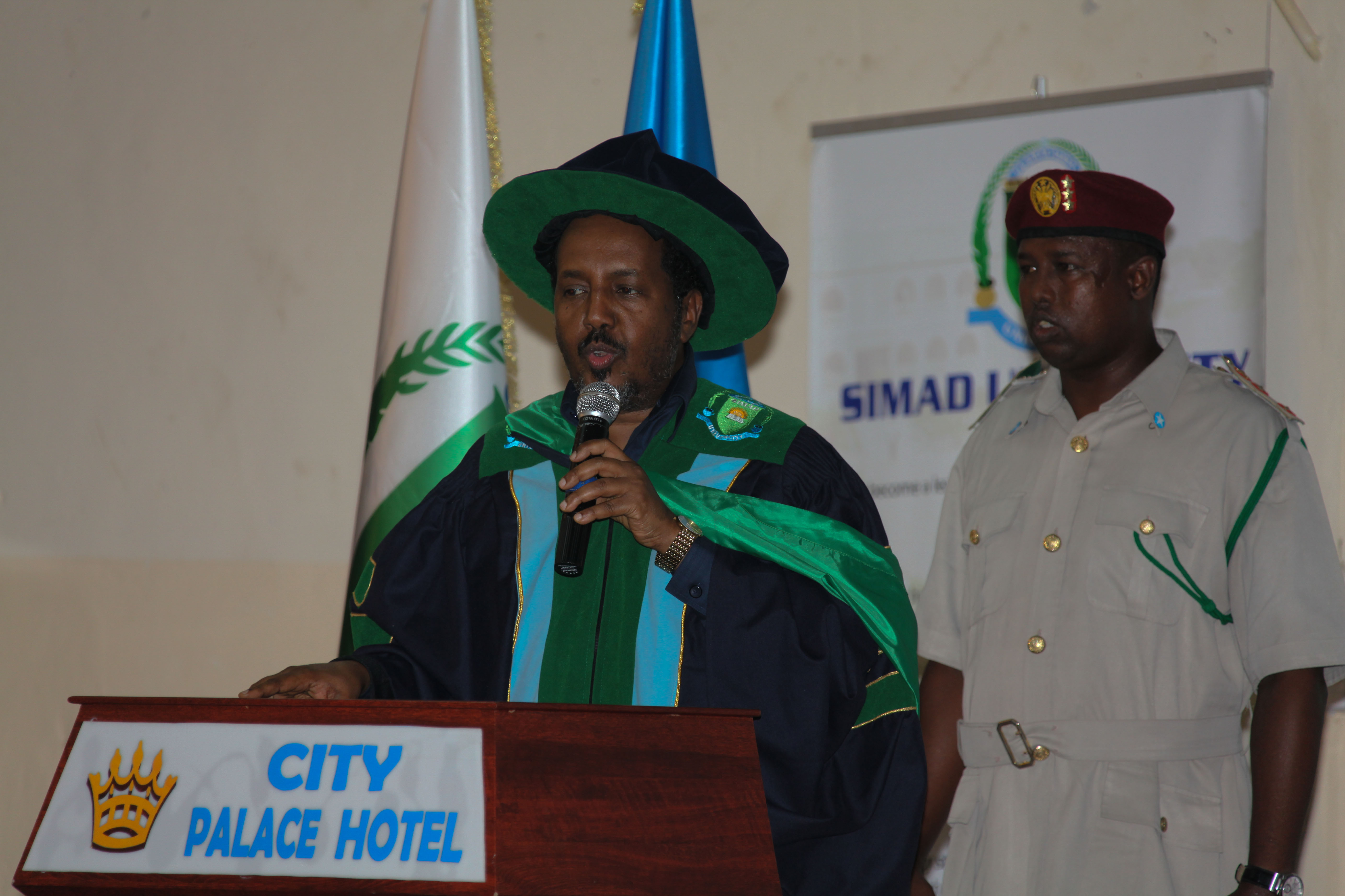 Somali president Hassan Sheik Mohamud speaks to the 700 graduates at Simad University during a graduation ceremony held in Mogadishu Somalia, 28 November AU UN IST Photo/Ilyas A. Abukar